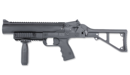 ASG-GL-06-Grenade-Launcher-Proline-17002-8737